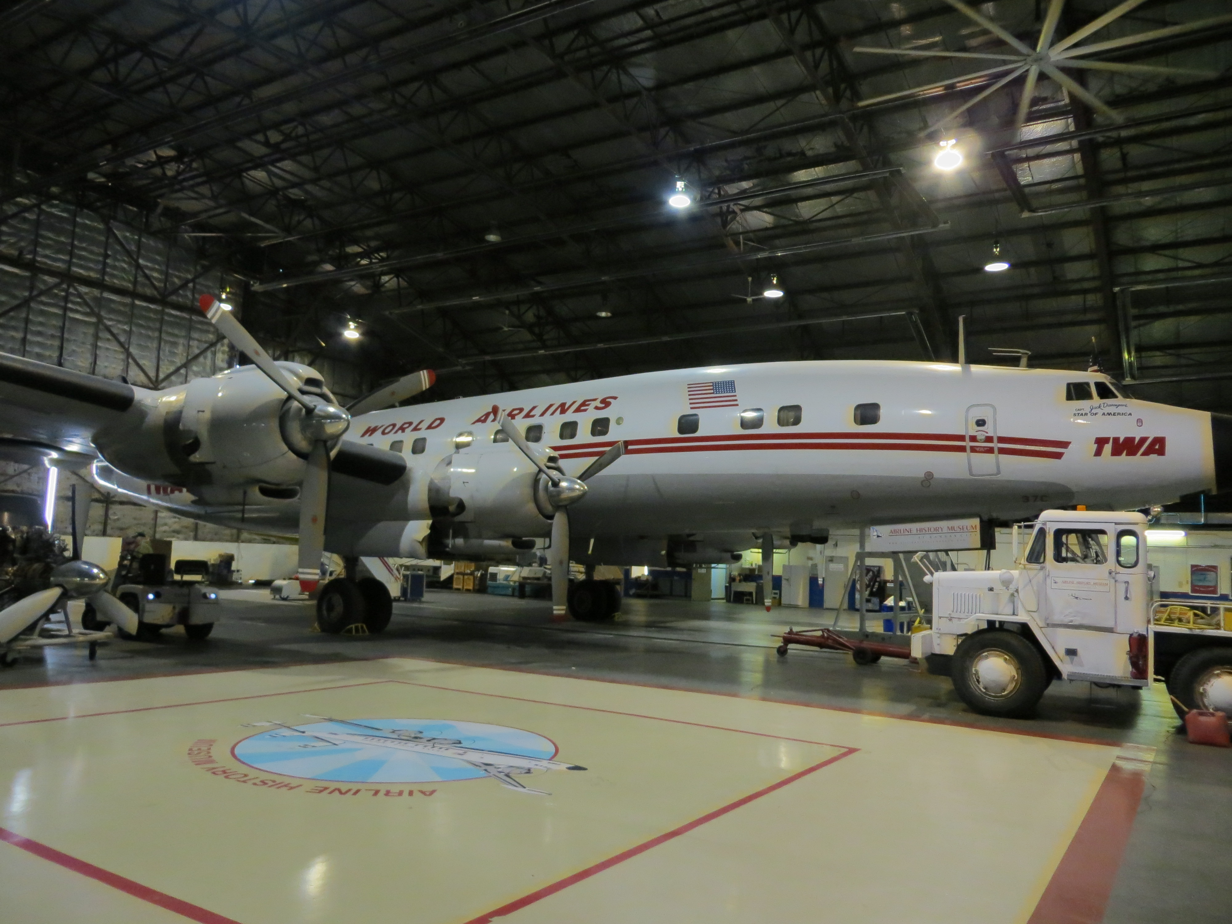 Lockheed Super G Constellation N6937C at National Airline History Museum